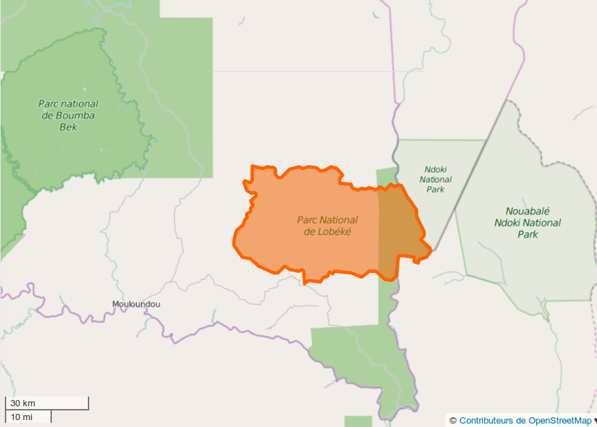 Lobéké National Park in Cameroon (OSM). This map may be incomplete, and may contain errors. Don't rely solely on it for navigation.